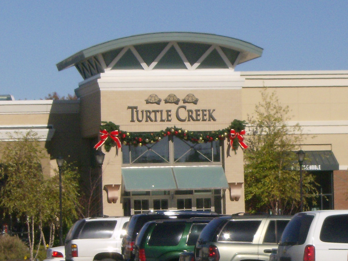 A photo I took of the Mall at Turtle Creek in Jonesboro, AR on November 29, 2007. This is one of the several main entrances of the building.